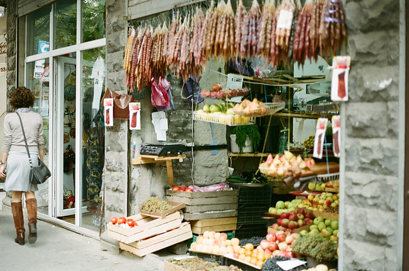 A small fruit market in the street in Tbilisi, Georgia